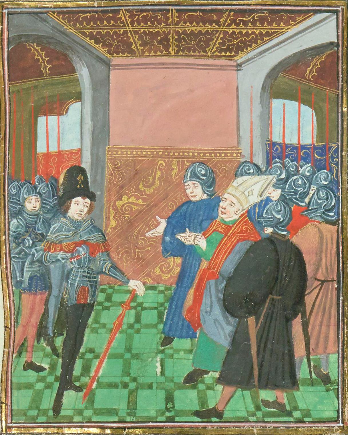 Edmund Beaufort, Duke of Somerset negotiating with envoys at Rouen during the Hundred Years' War. Illuminated miniature from the Chronique of Jean Chartier of Bruges